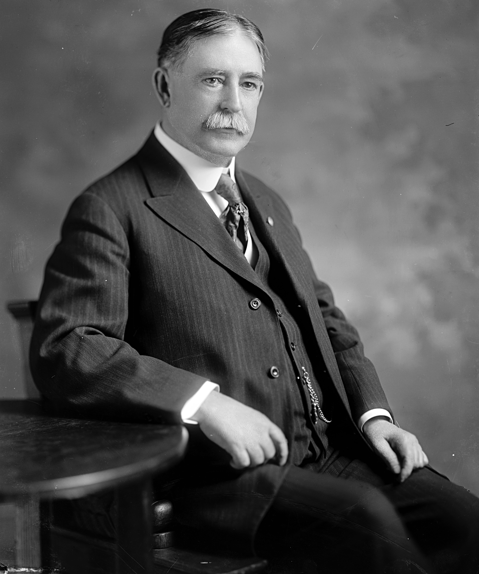 Henry Z. Osborne, US Representative from California